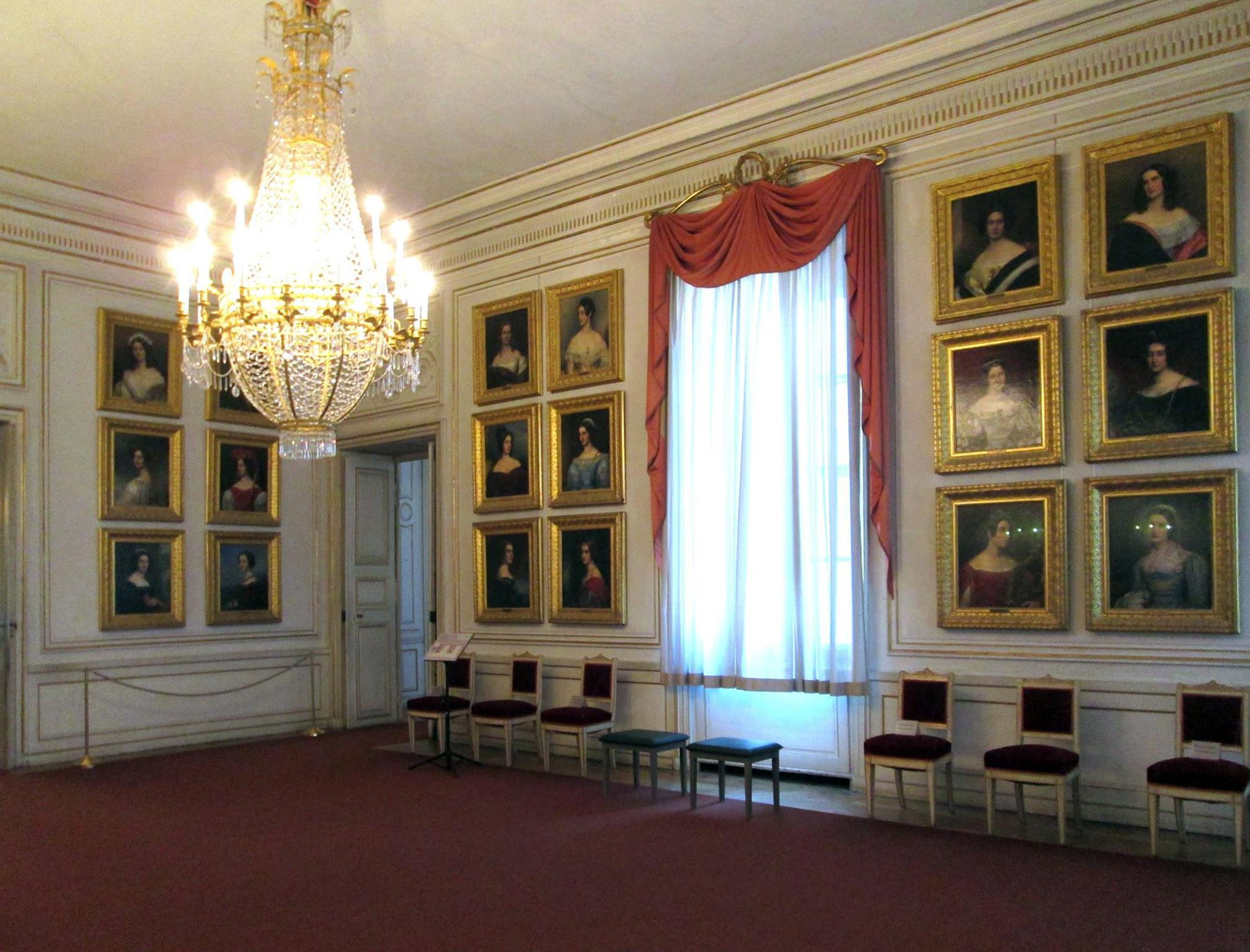 The King Ludwig I's Gallery of Beauty in Nymphenburg Castle.